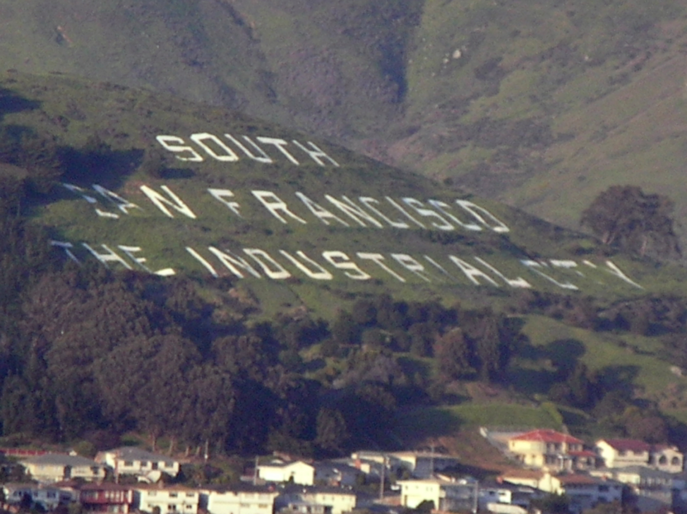 The South San Francisco Hillside Sign in South San Francisco, California.